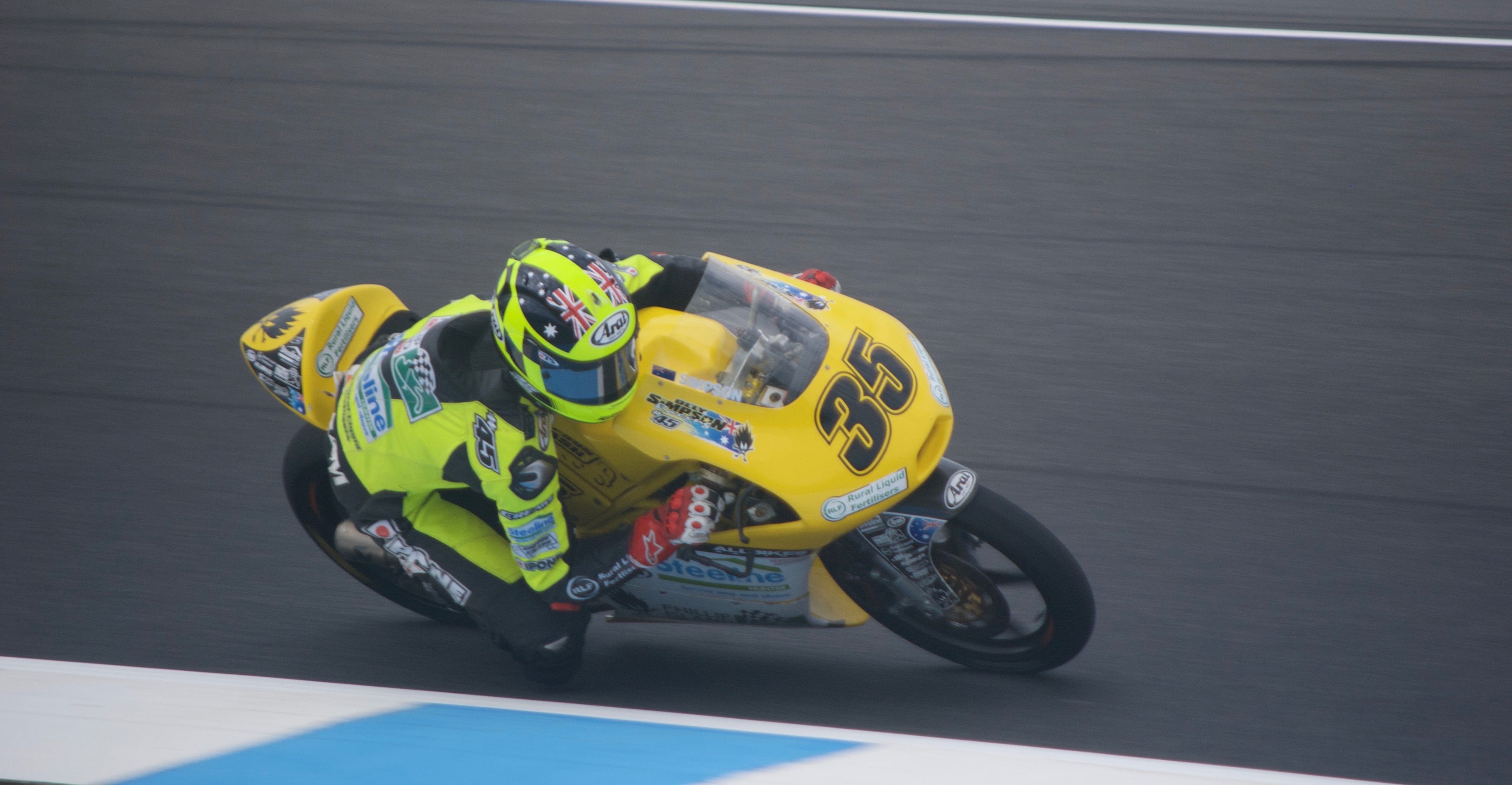 2015 Australian motorcycle Grand Prix – Moto3 – #35 Olly Simpson – KTM – Olly Simpson Racing